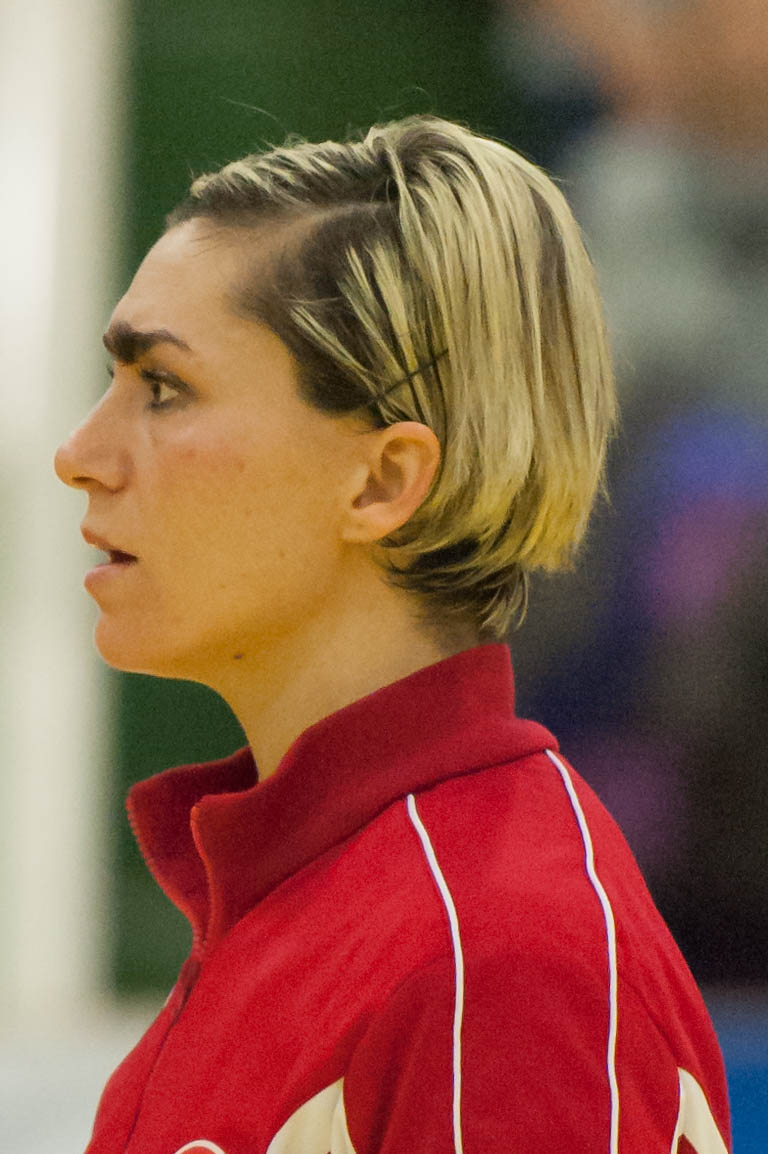 2015 World Women's Handball Championship Qualification 2014-12-06: Serpil İskenderoğlu